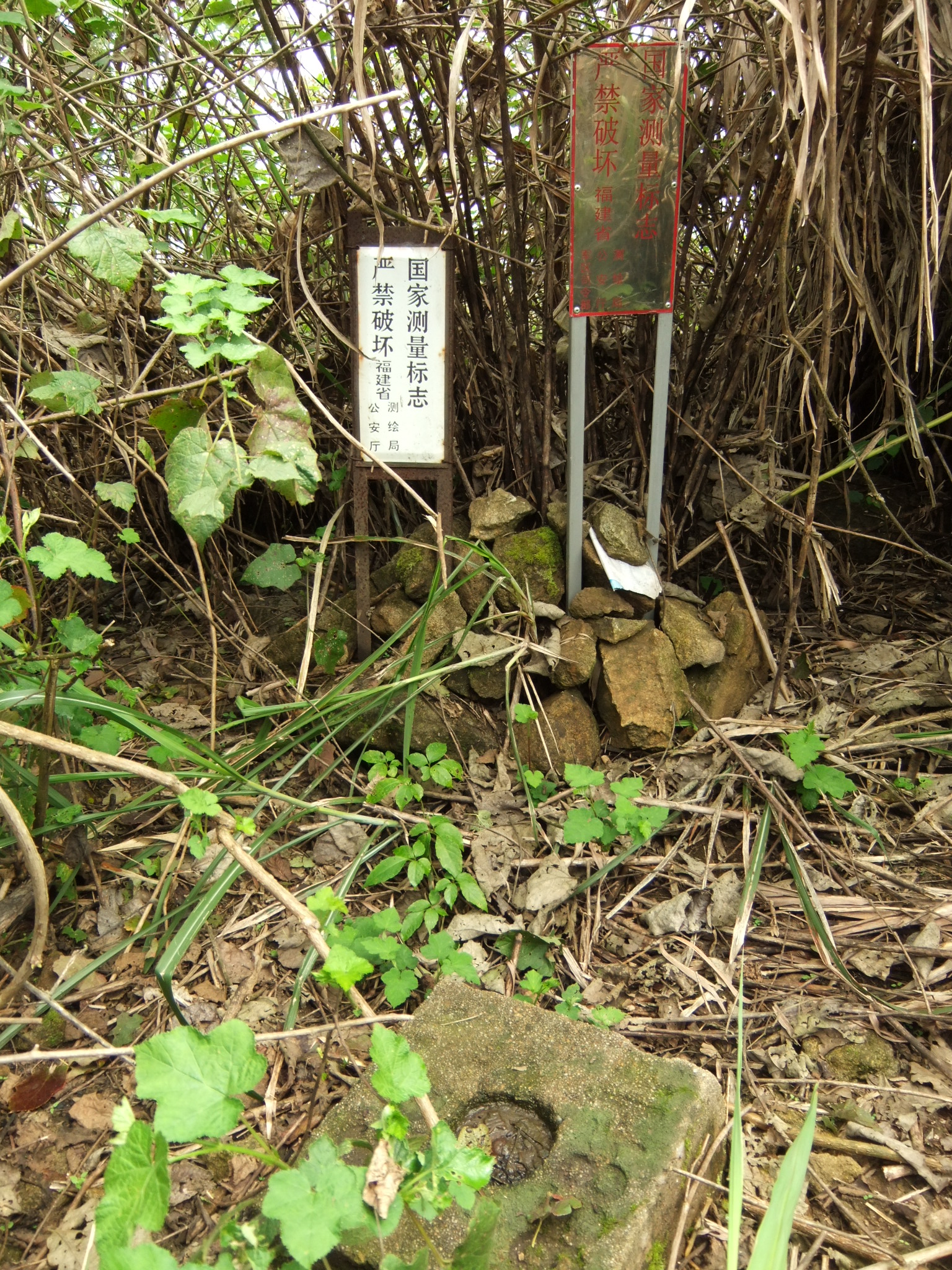 On the top of Jin Mountain, north of Gaobei Village (Gaotou Township, Yongding County, Fujian). There is no particulalry good view from here, due to vegetation. On the very top of the mountain one can see a small dilapidated stone building, a national geodetic survey marker dated 1958, and warning signs enjoining people from disturbing it